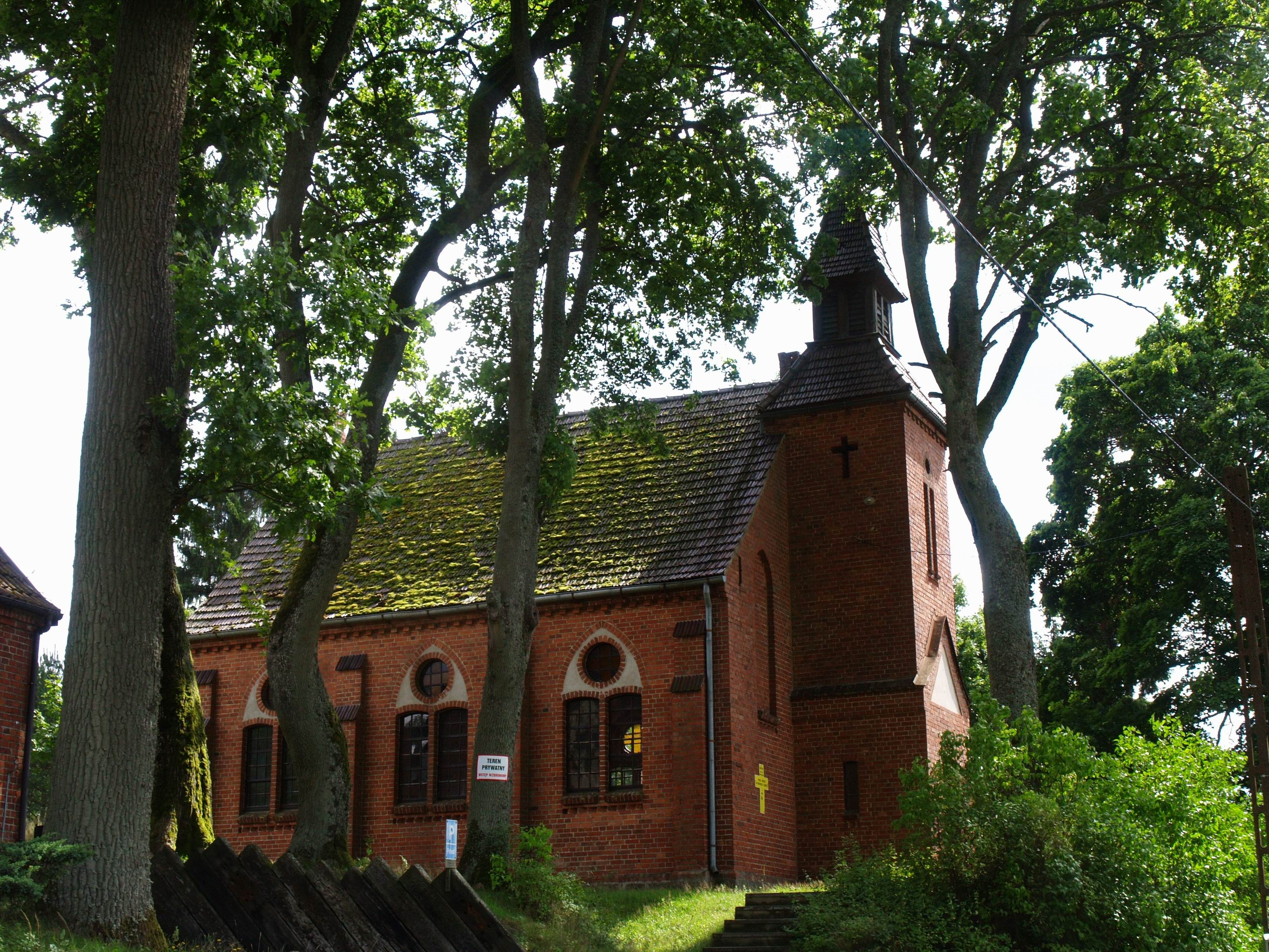 Church in Okole